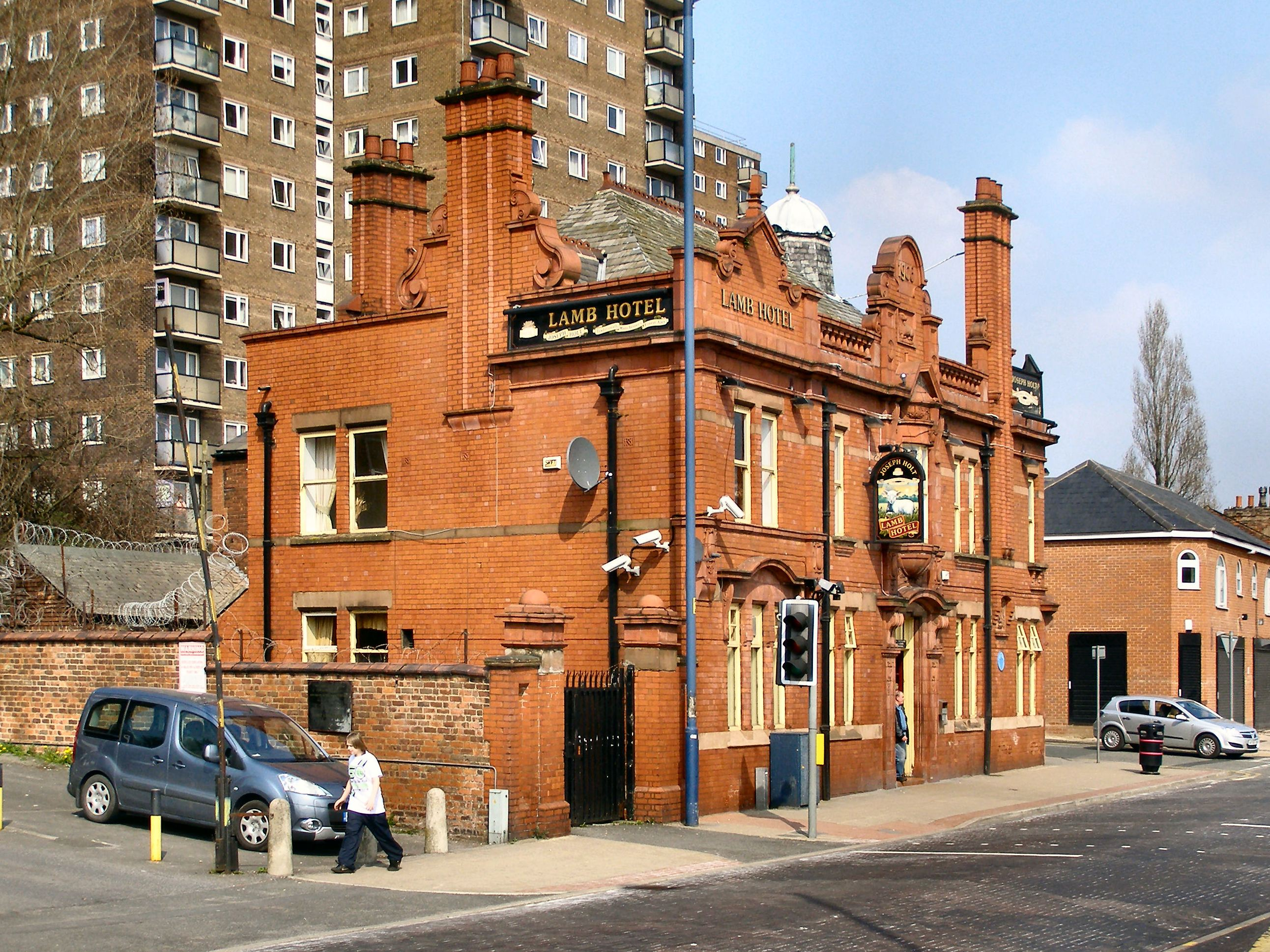 Lamb Hotel Regent Street, Eccles.